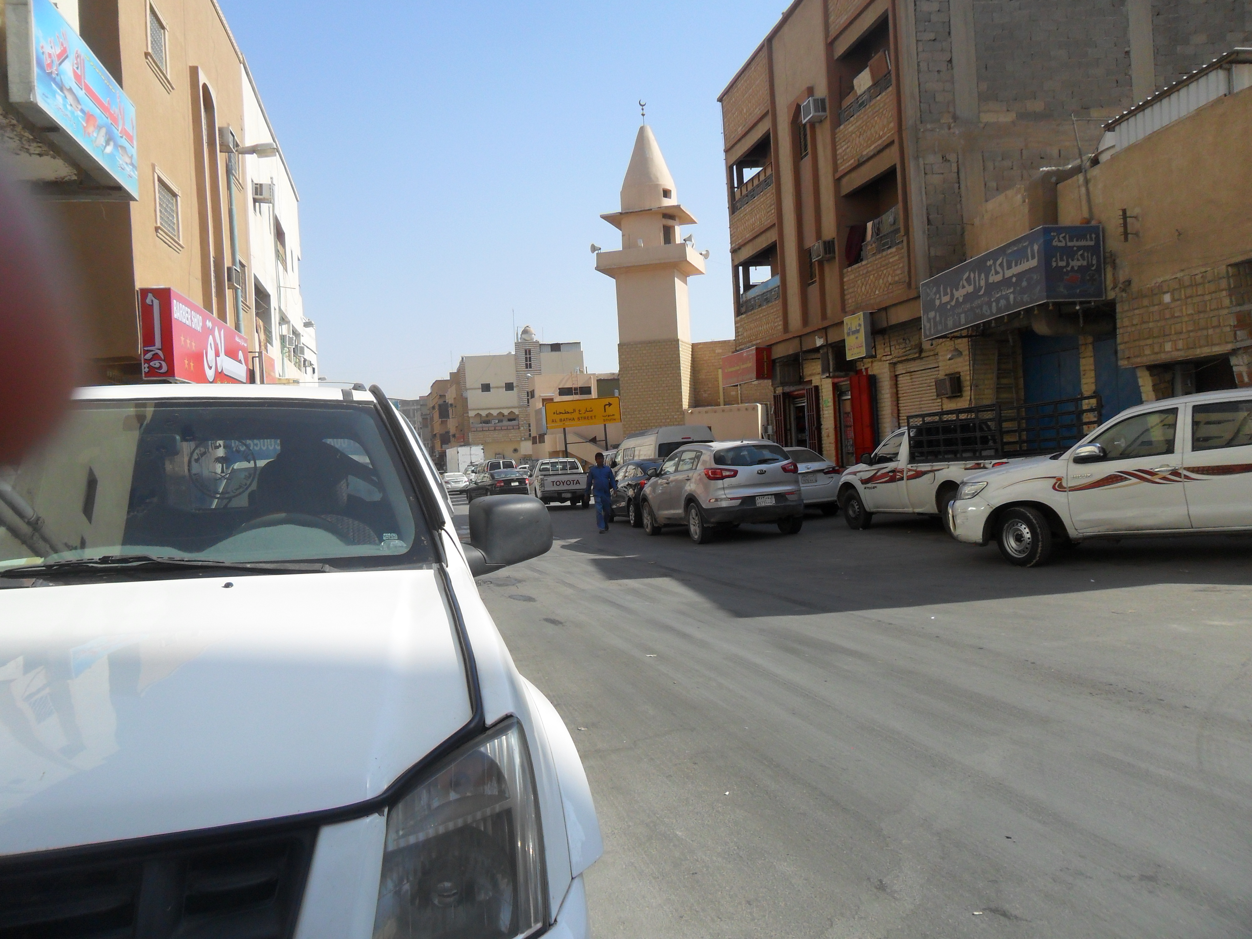 The Second Picture about Manfuha in Riyadh City, Saudi Arabia.